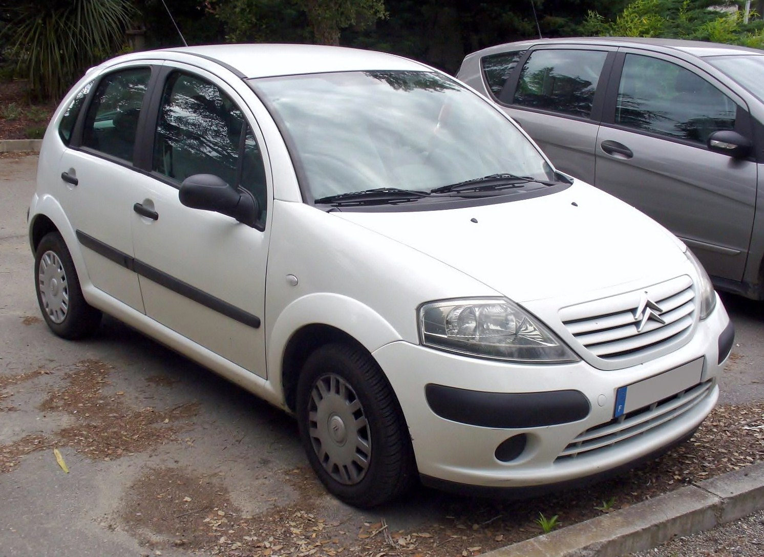 Citroën C3